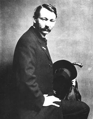 1900 photograph of Robert Henri, by Gertrude Kasebier (1853–1934)